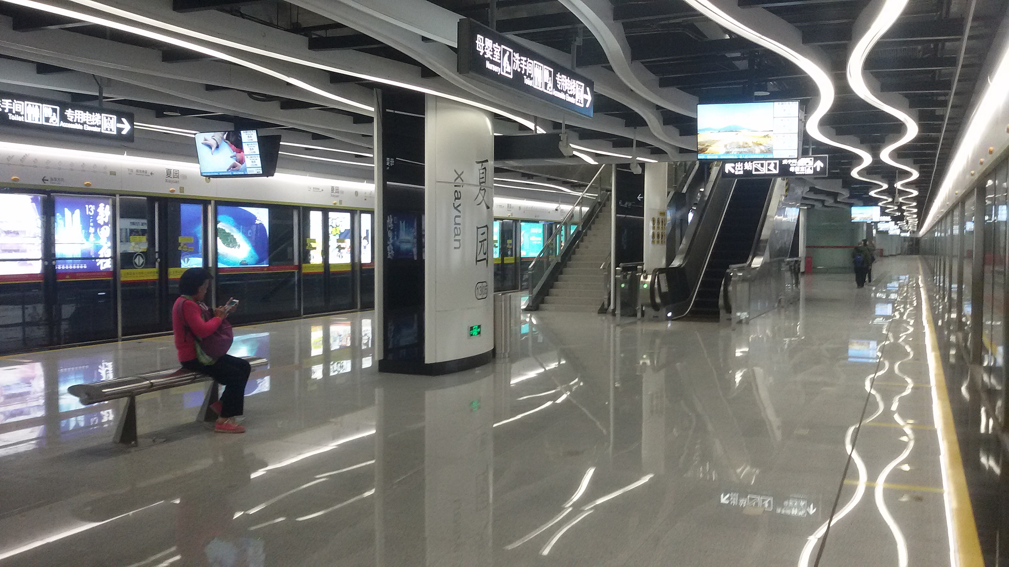 Station Platform for Xiayuan Station in Guangzhou Metro.